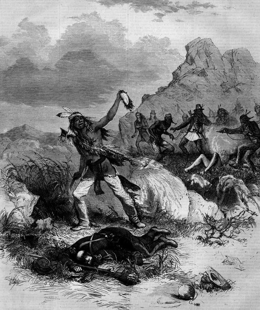 Modocs Scalping and Torturing Prisoners, a wood engraving published in Harper's Weekly, May 3, 1873.